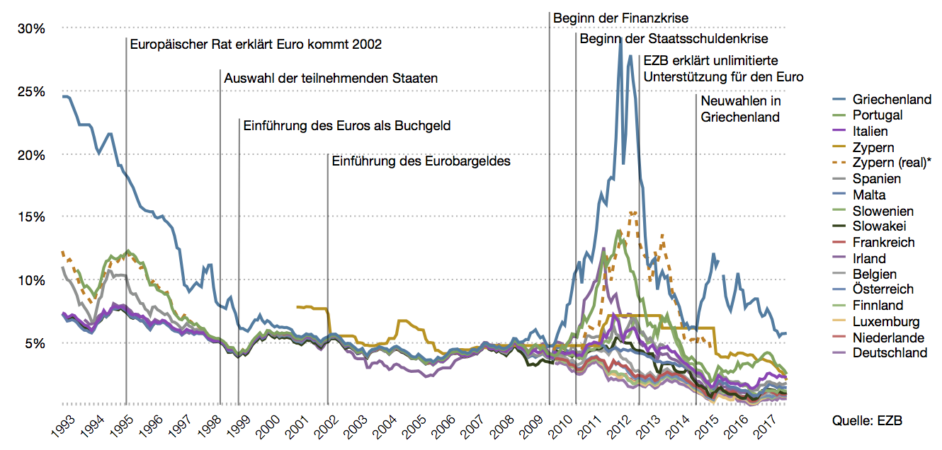 Change of yields of long-term government bonds (10 years) of Euro area countries since 1993 (including time markers) Long-term interest rate statistics for all Eurozone countries. (percentages per annum; period averages; secondary market yields of government bonds with maturities of close to ten years)